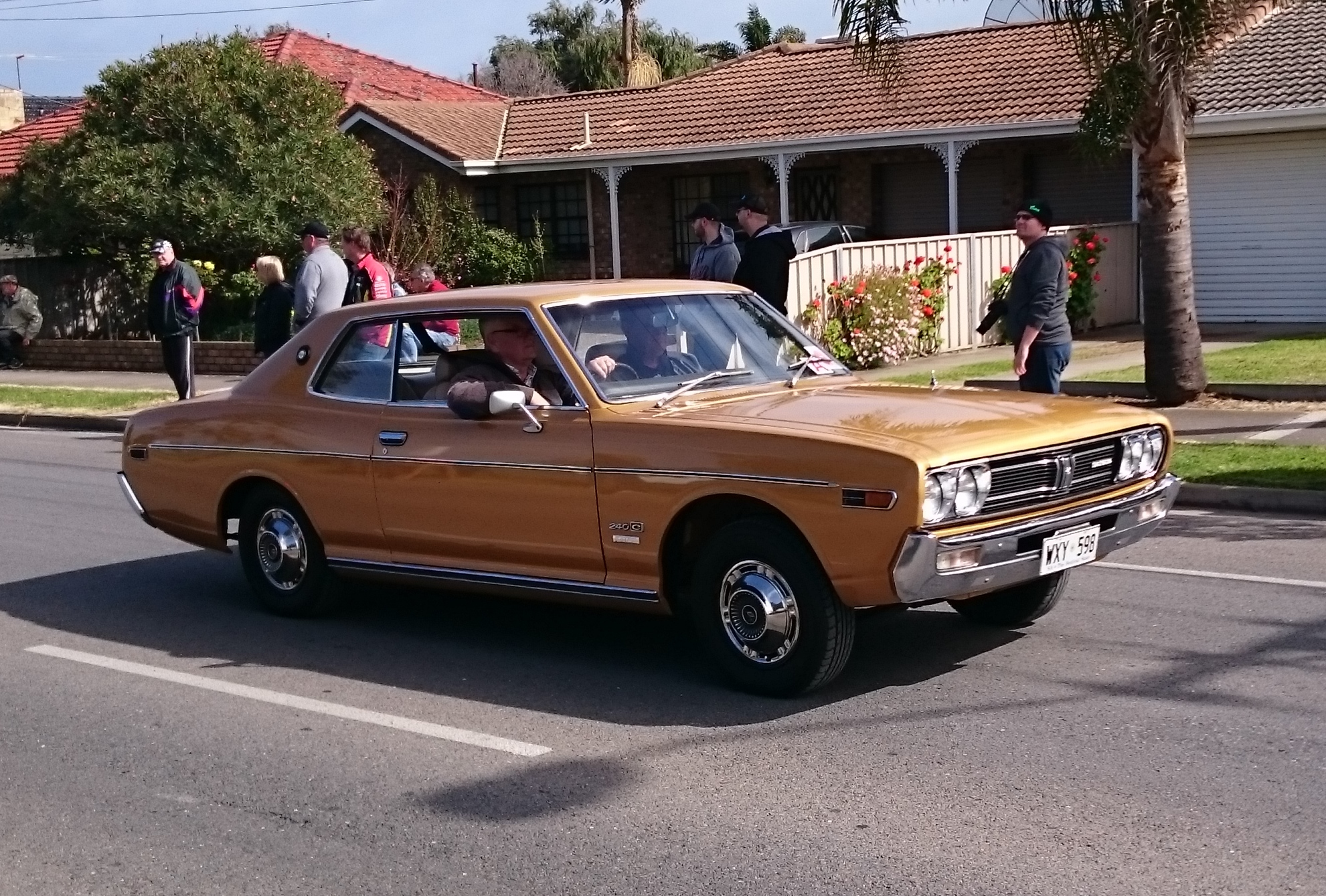 Datsun 240C GL Hardtop. Australian market model.